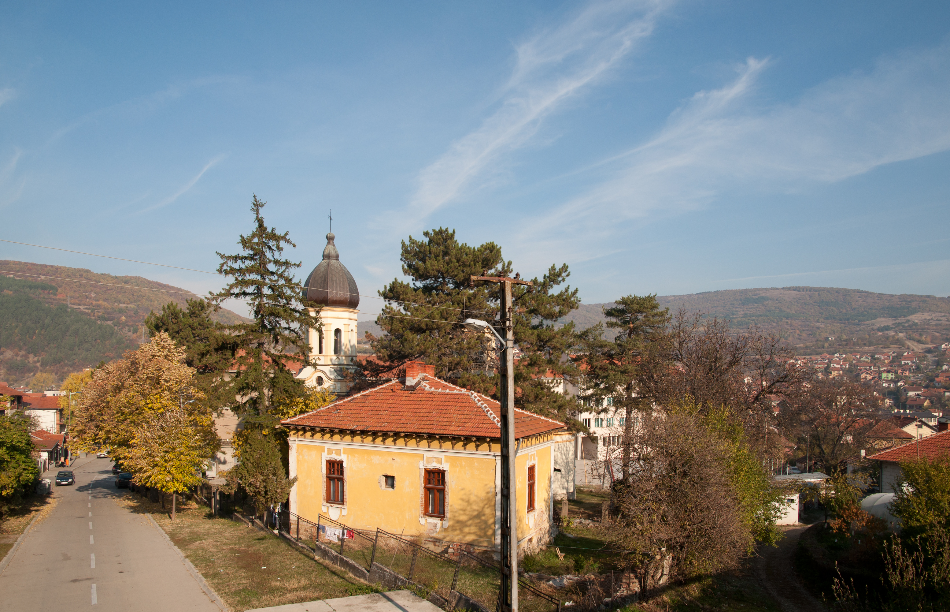 View of the town of Dimitrovgrad, Serbia with the tower of the Holy Mother of God church.